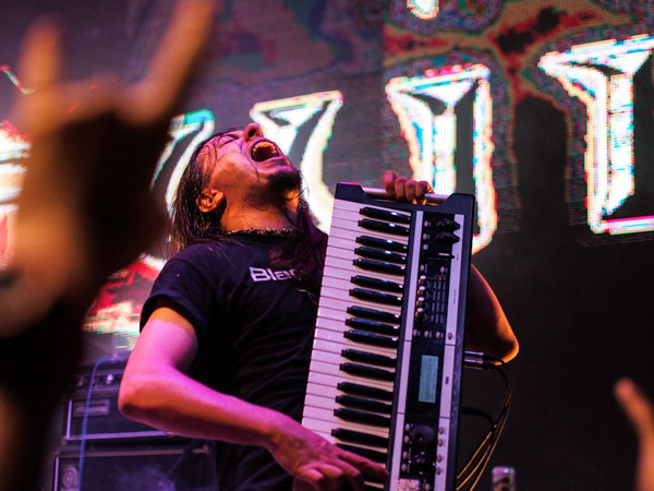 bob katsionis live in shanghai